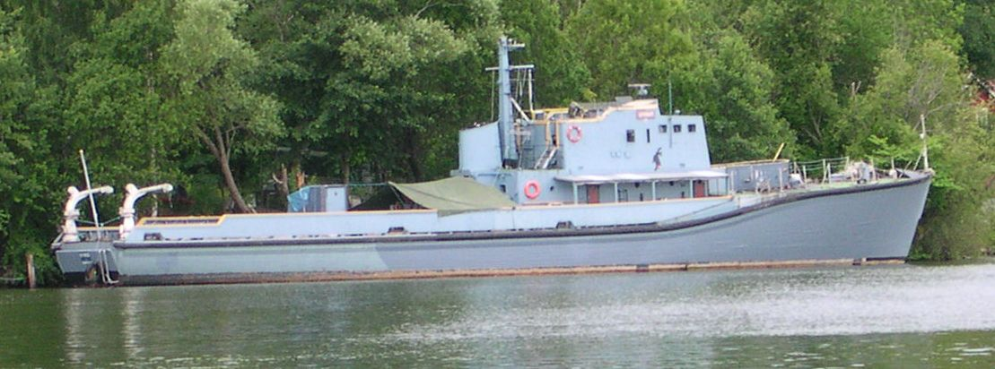 Former Swedish Navy minesweeper HMS Styrsö (M61) in Linasundet, Södertälje July 2005.